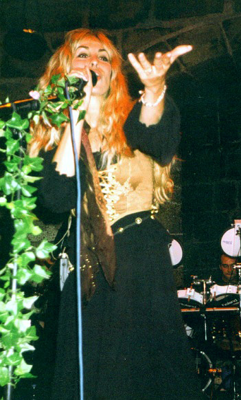 Candice Night live in Heidelberg/Germany, July 24, 2002